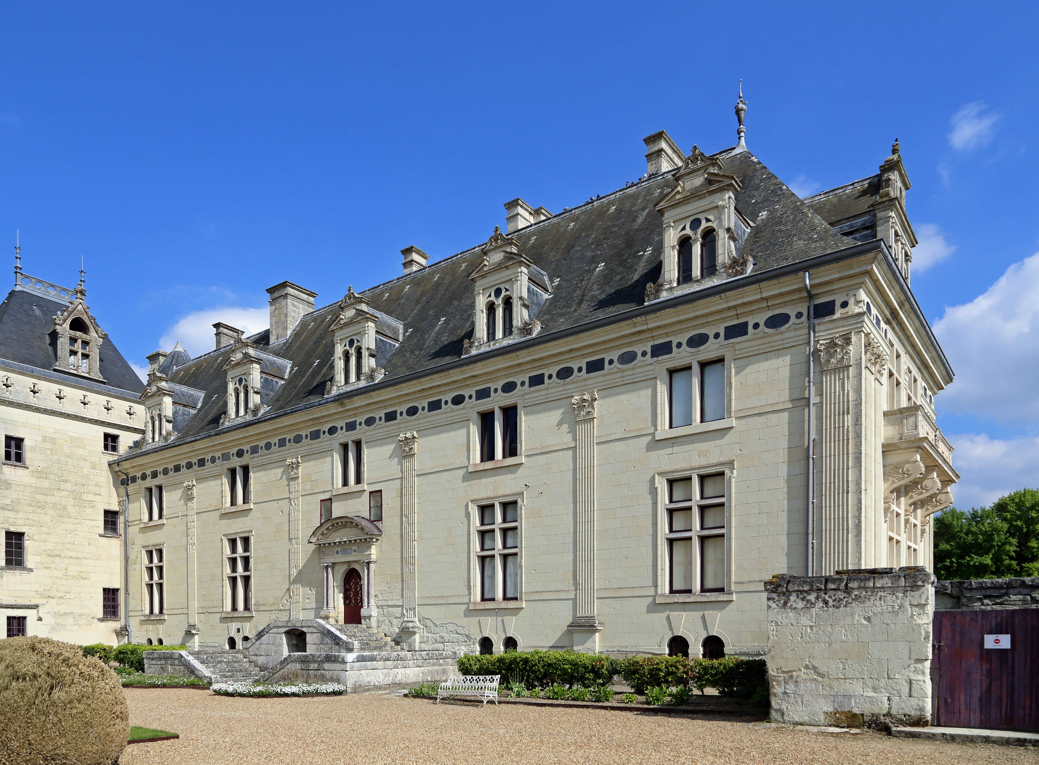 Brézé (département Maine-et-Loire, France): the castle